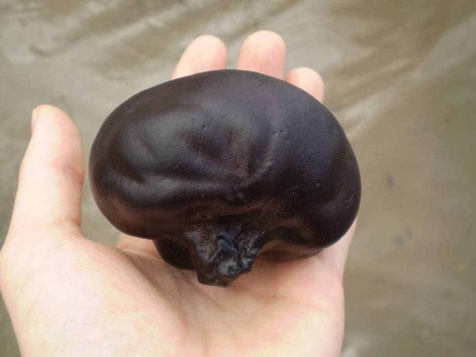 A fruit body of the puffball fungus Mycenastrum corium (Guers.) Desv. Specimen found in Central Goldfields, Victoria, Australia. "Notes: Found floating in flood waters of a nearby creek. The peridium was tough/leathery and deep purple in colour."